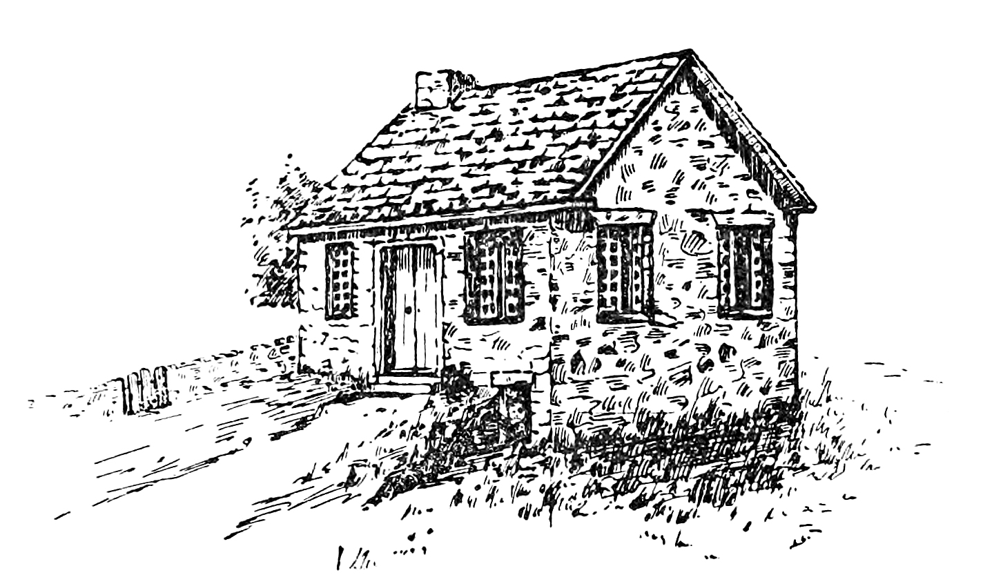 Drawing of the Old Eagle School, Strafford, PA as it appeared in 1788 prior to the final expansion